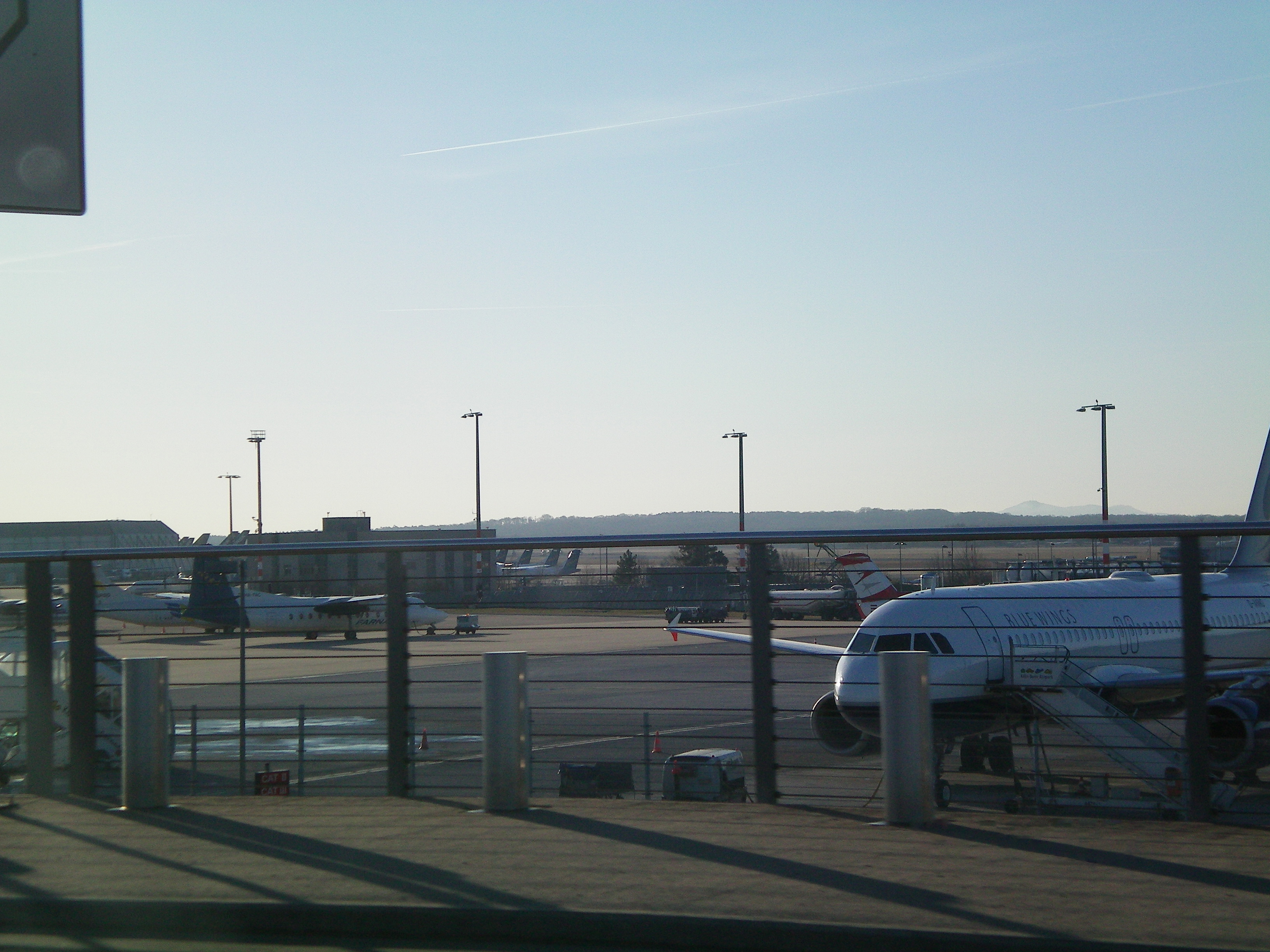 Cologne Bonn Airport Parking